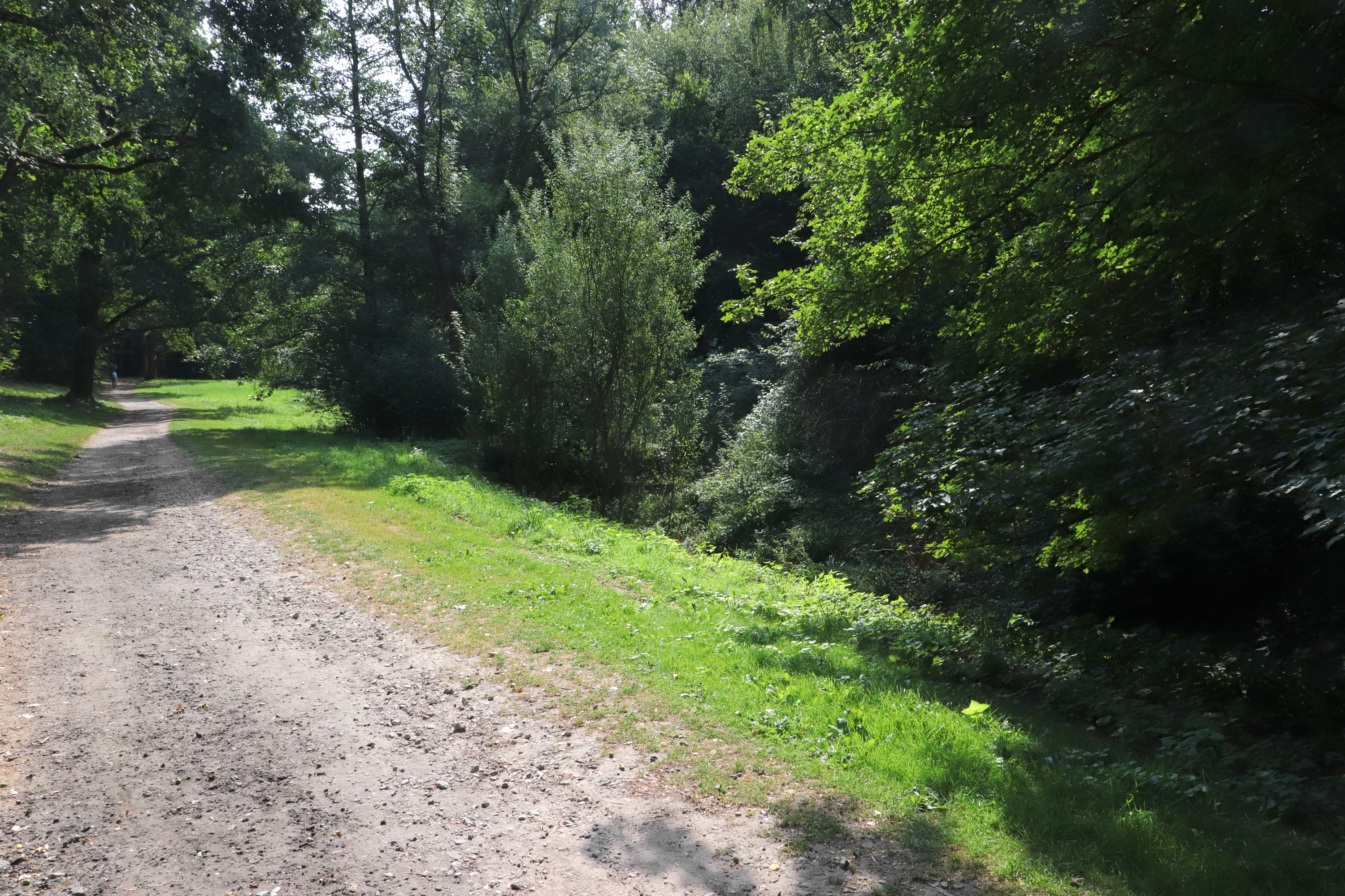 Hamburg, district Harburg, township Wilstorf, municipal park, path along NymphengrabenThis is a photograph of an architectural monument.